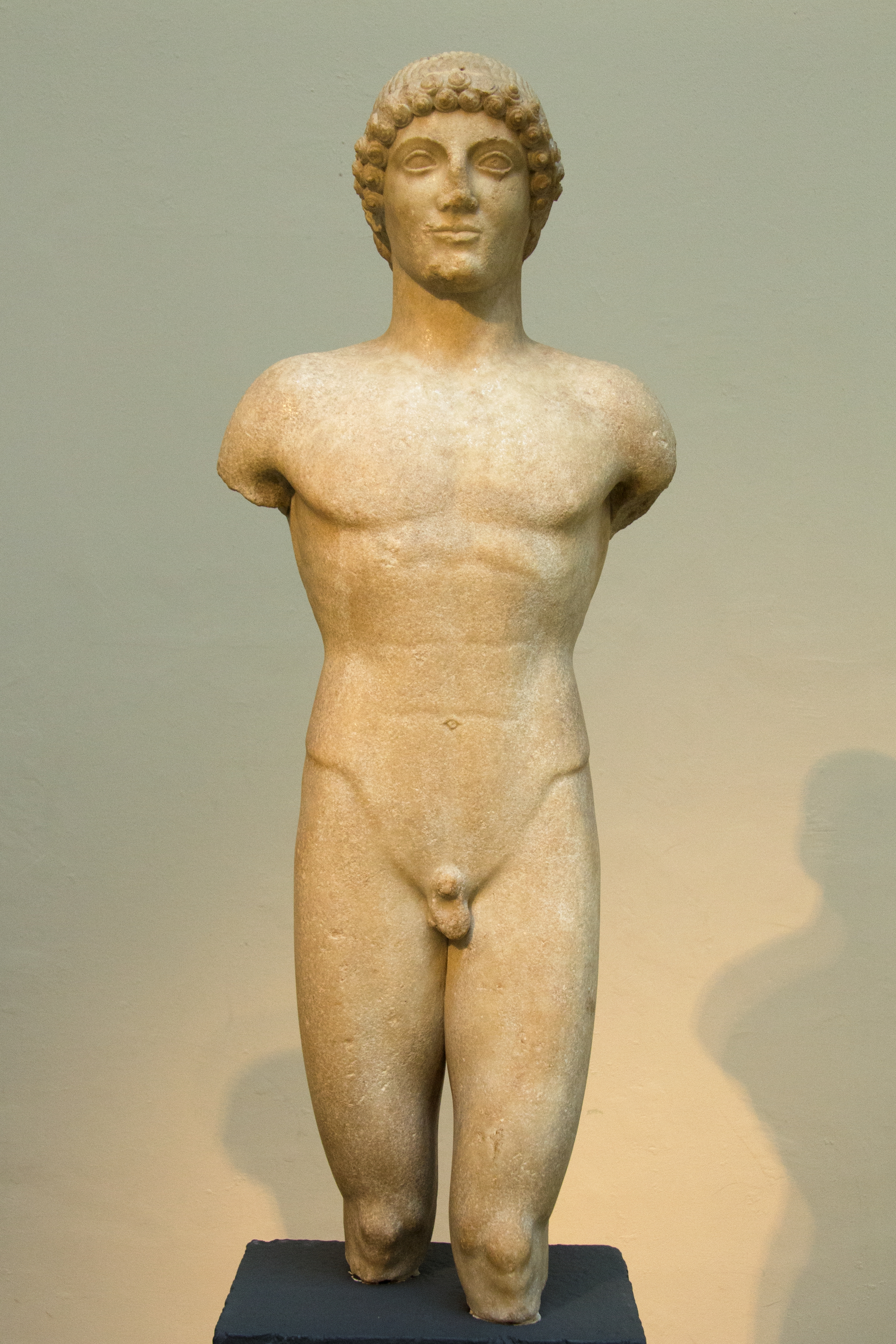 Kouros, 510-490 BC. From island of Anaphe (Anafi), Anafian marble (traditionalː Parian marble). Strangfors collection (Percy Smythe, 8th Viscount Strangford). British Museum, GR 1864.2-20.1. BM Sculpture B475.